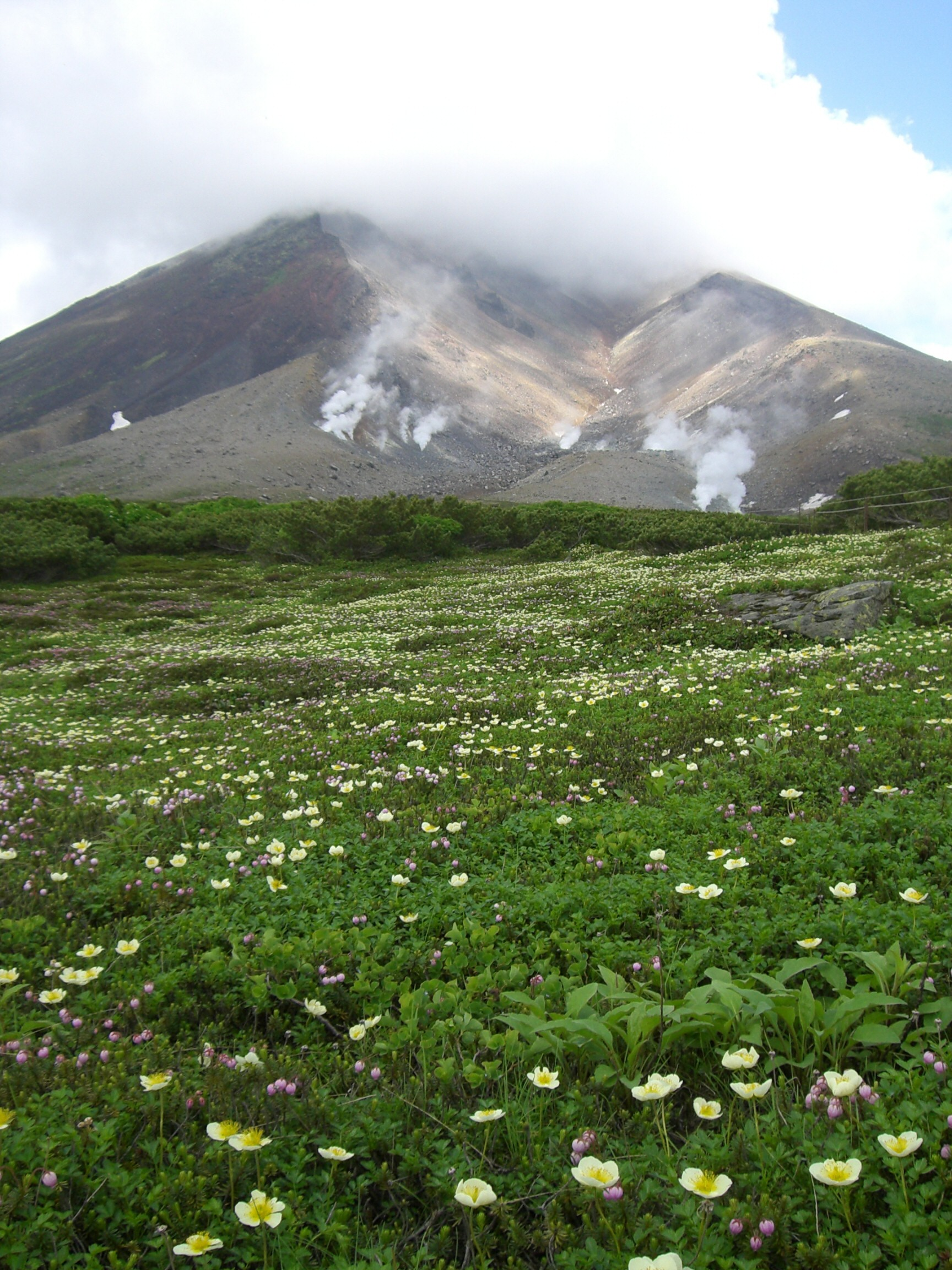 Volcano asahidake with flowers 大雪山旭岳とお花畑